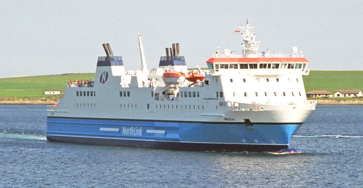 NorthLink ferry, MV Hrossey leaving Kirkwall in the Orkney Islands to travel to Lerwick in the Shetland Islands IMO Number: 9244960 MMSI Number: 235448000 Callsign: VSTY6 Length: 125 m Beam: 19 m